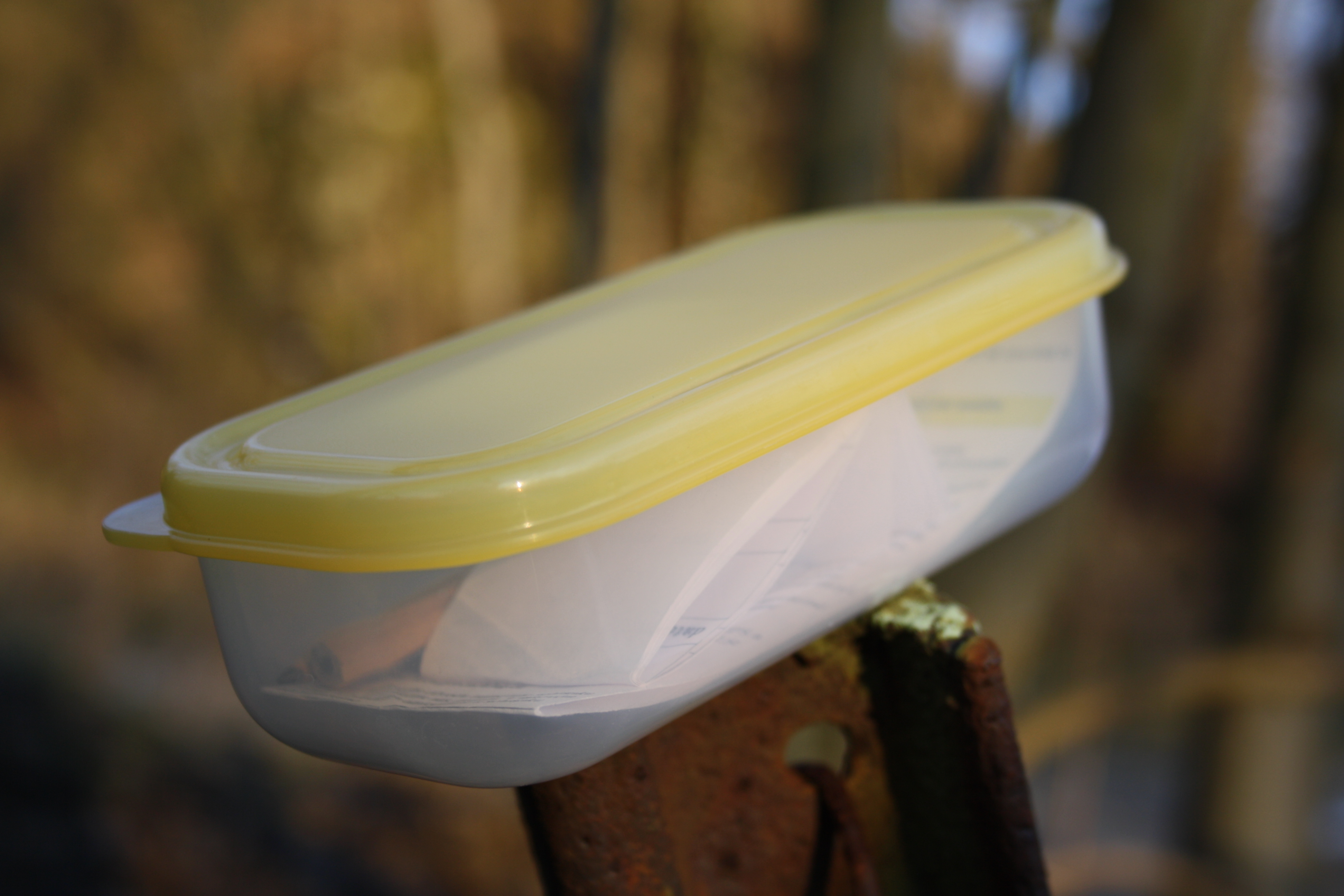 Micro geocache near Třebíč at nature.